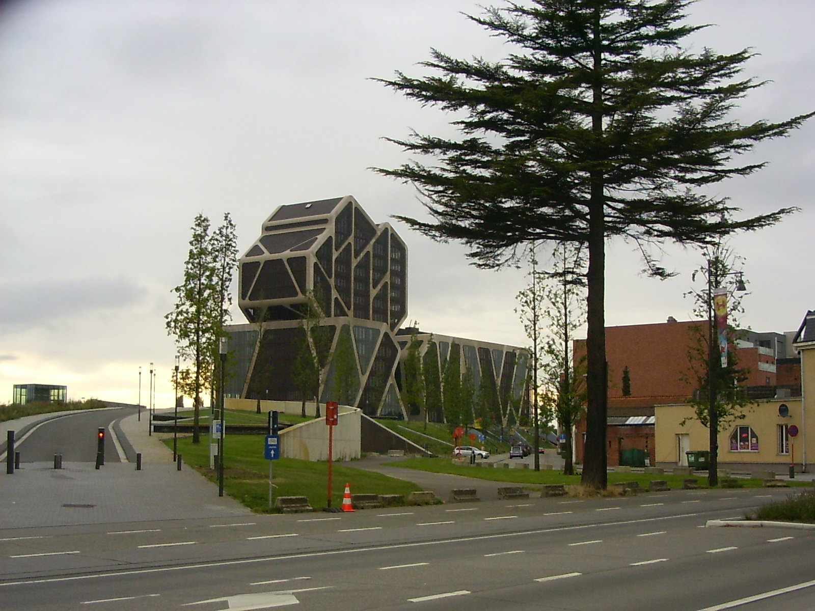 Hasselt justice building